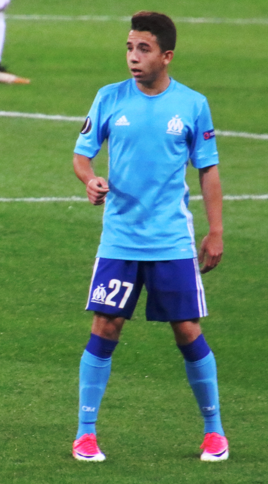 UEFA Euroleague group stage matchday 2